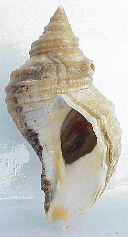 apertural view of the shell of Neptunea lyrata